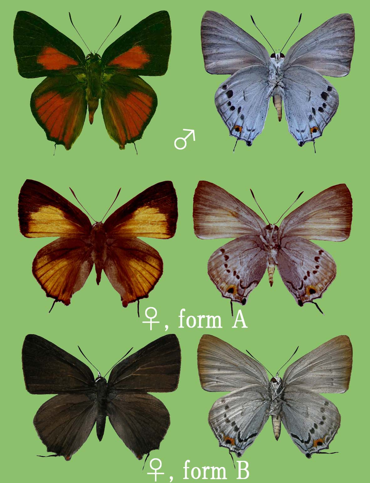 Deudorix philippinensis, male and female